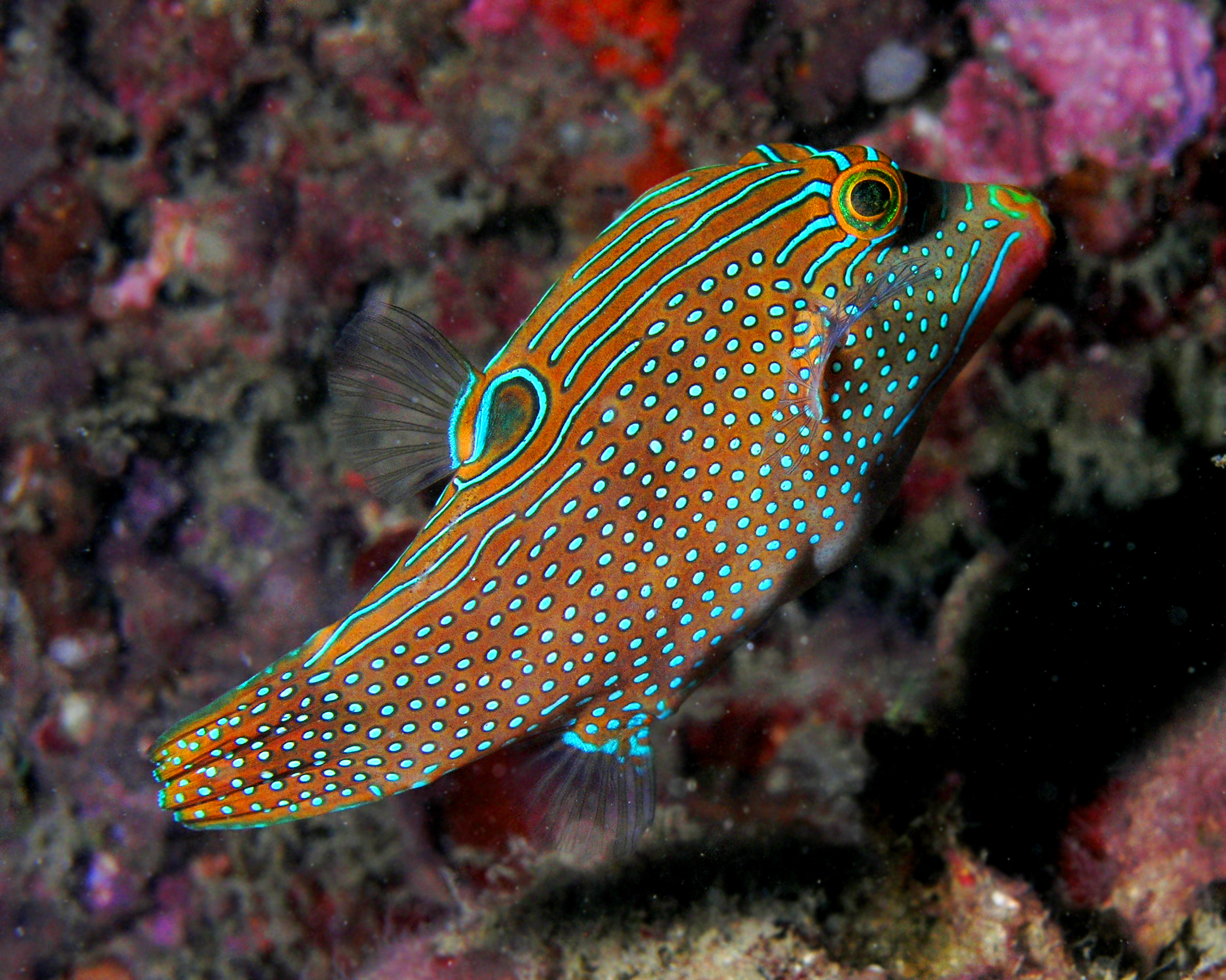 Canthigaster solandri (sharpnosed puffer, solander's toby, or blue-spotted toby)